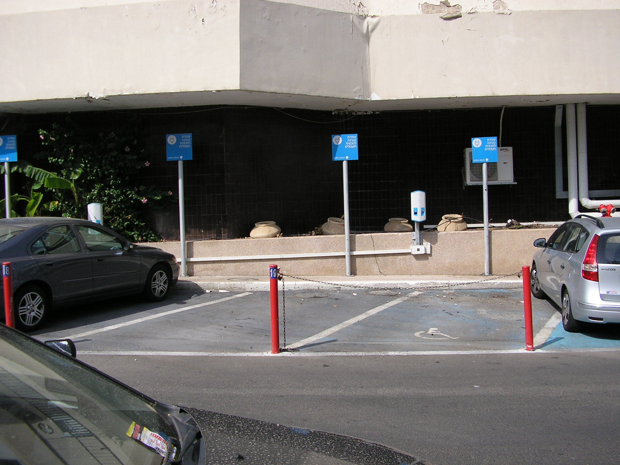 Electric car charging stations outside of the car parking in Leonardo Club Hotel, Tiberias